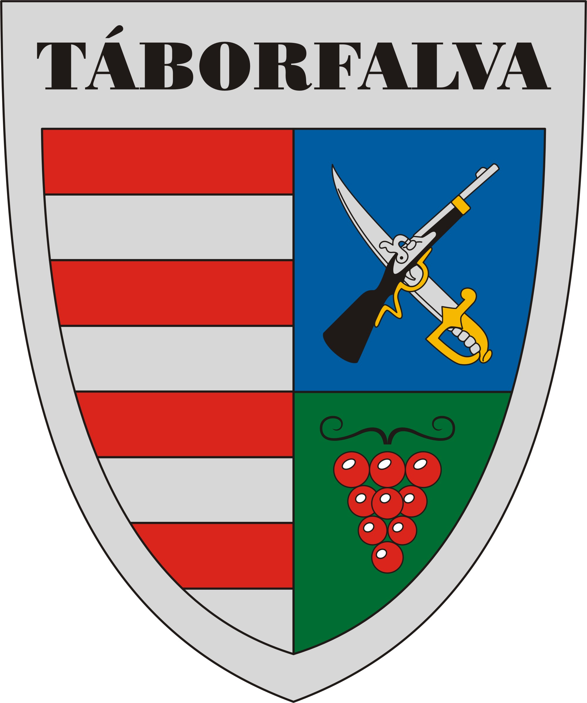 Coat of arms of Táborfalva, Hungary